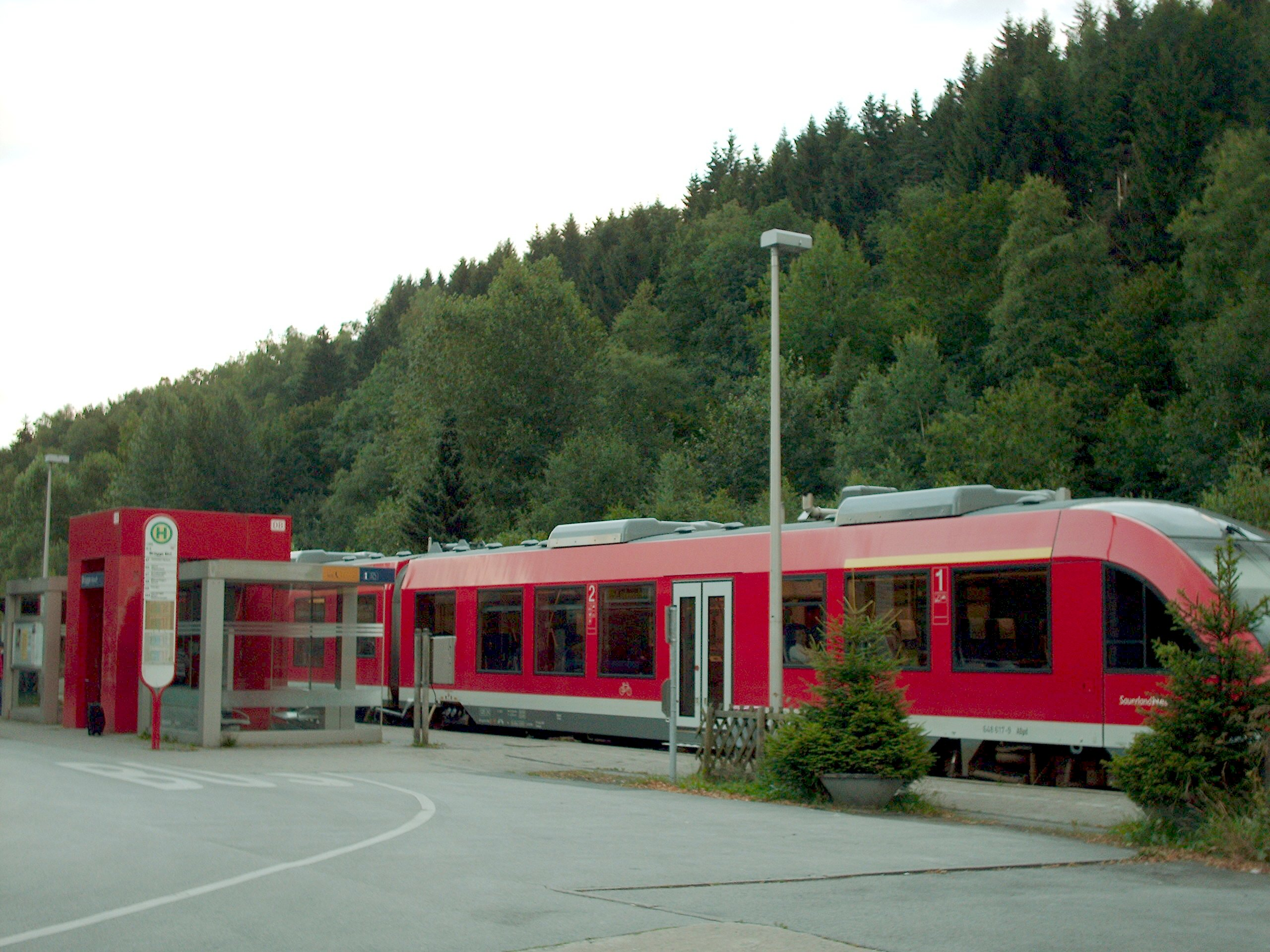 Brügge (Westfalen) station, Lüdenscheid, Germany check usage